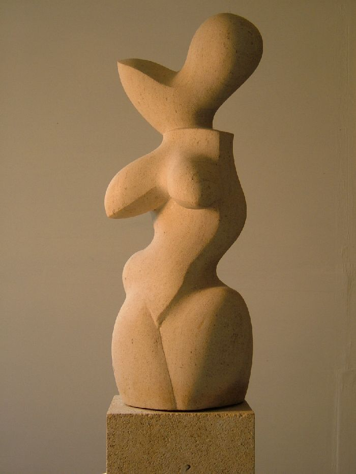 An early sculpture by English sculptor John Richard Parsons (b.1941).